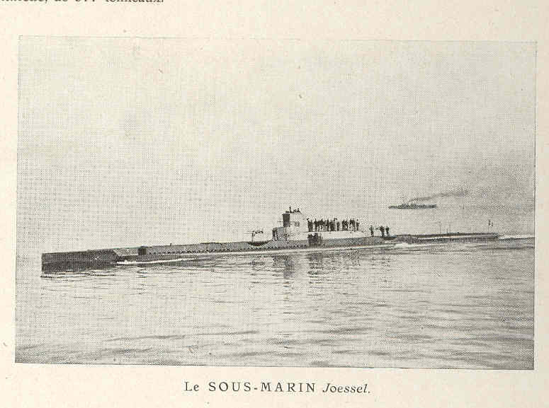 Subject: Submarines (Ships), Joessel (Submarine) Tag: Vessels